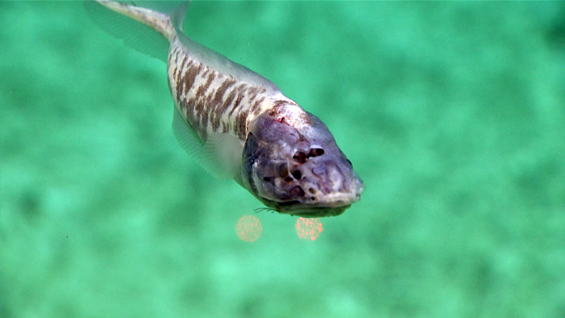 This injured cusk eel (subfamily Neobythitinae, sp.), seen on Dive 08 of the expedition, has a dark head and a lighter, mottled body. Picture taken in the abysses of the Pacific ocean by NOAA Okeanos Explorer mission "Mountains in the Deep: Exploring the Central Pacific Basin" in 2017.